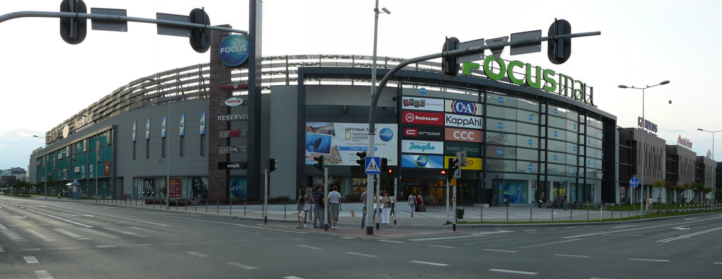 Focus Mall, shopping center in Piotrkow Trybunalski.